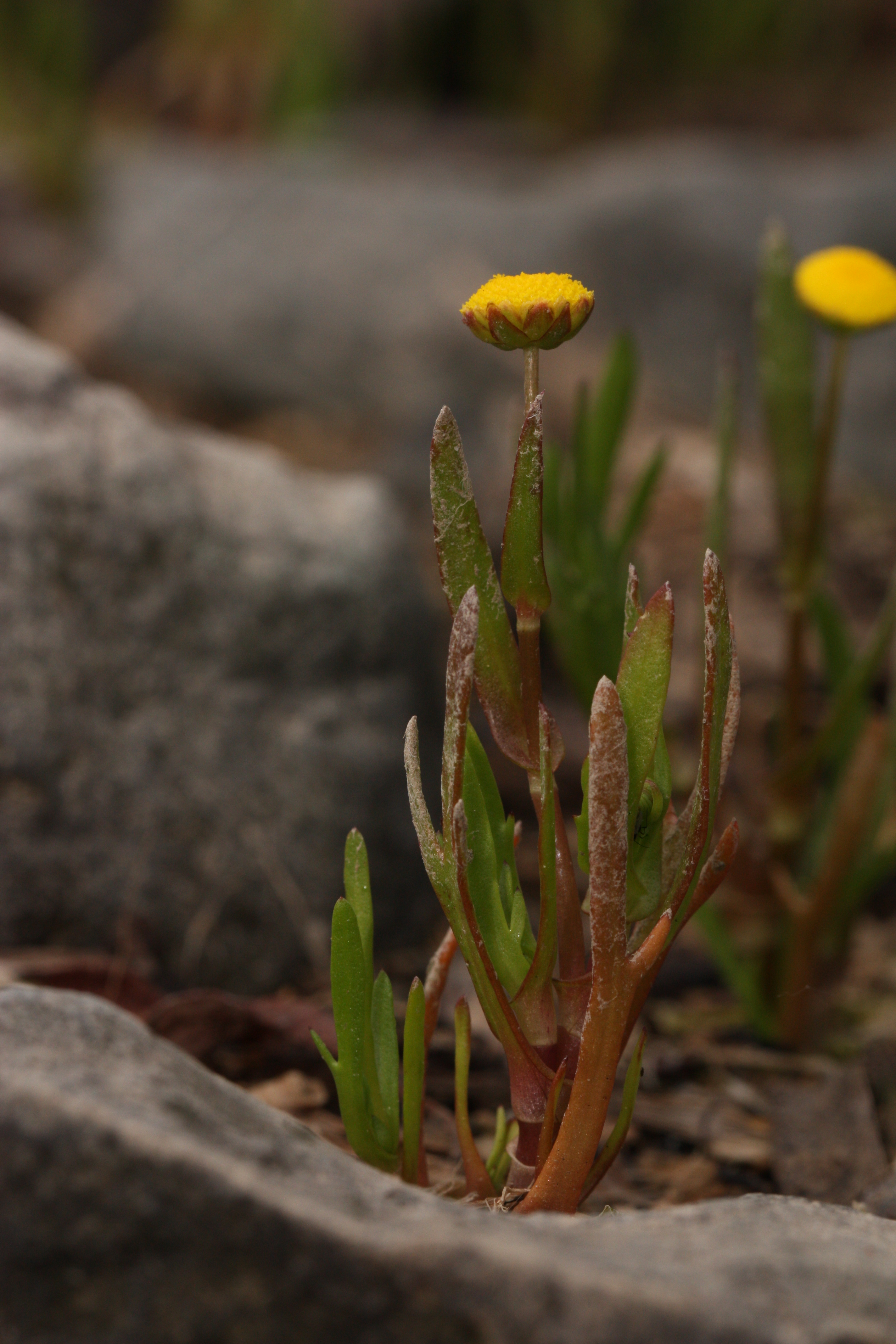 Common Brass Buttons